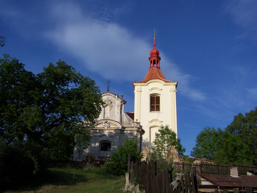 Sluštice, kostel